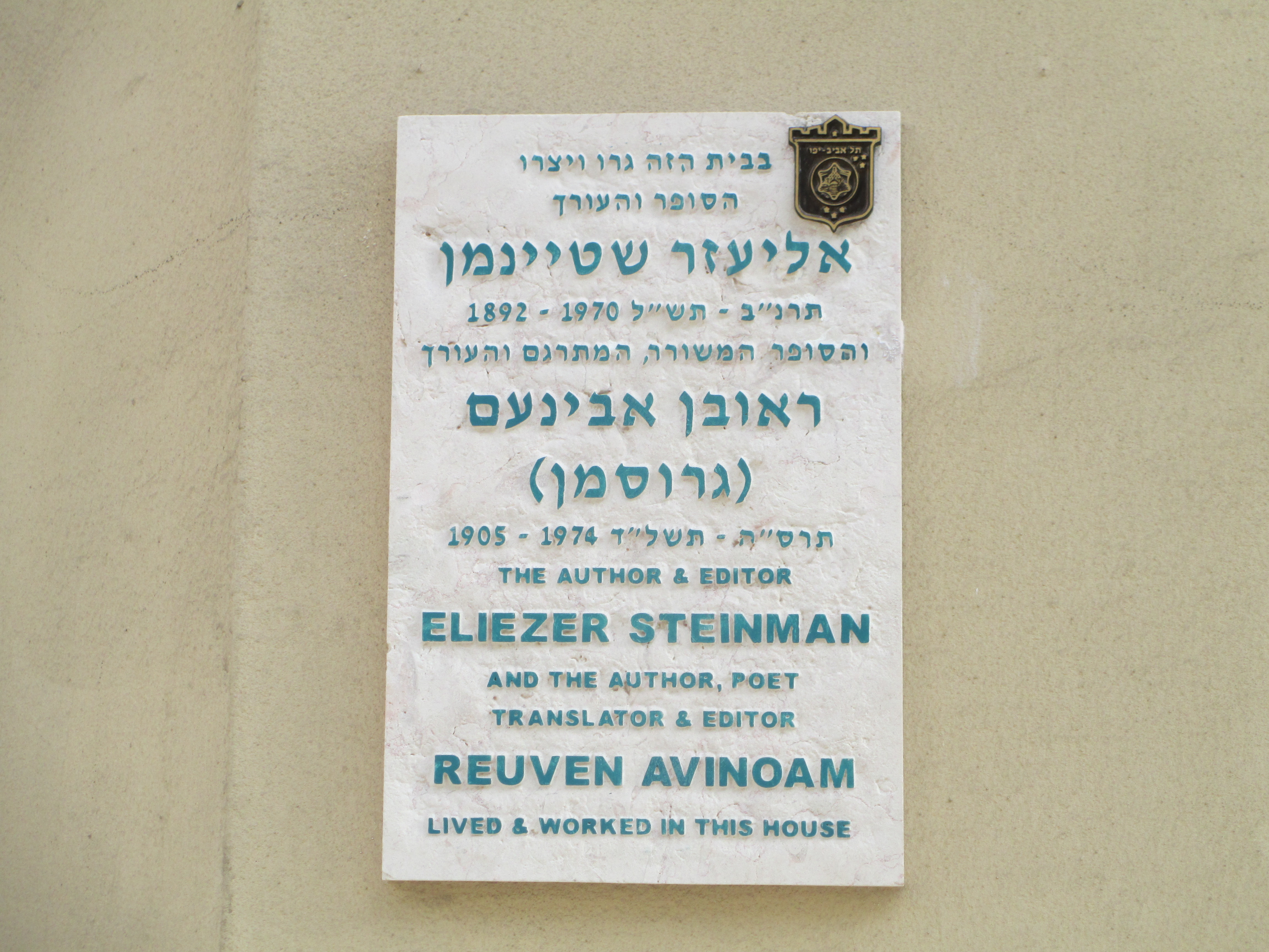 memorial plaque to the writers steinmam & avinoam in tel aviv